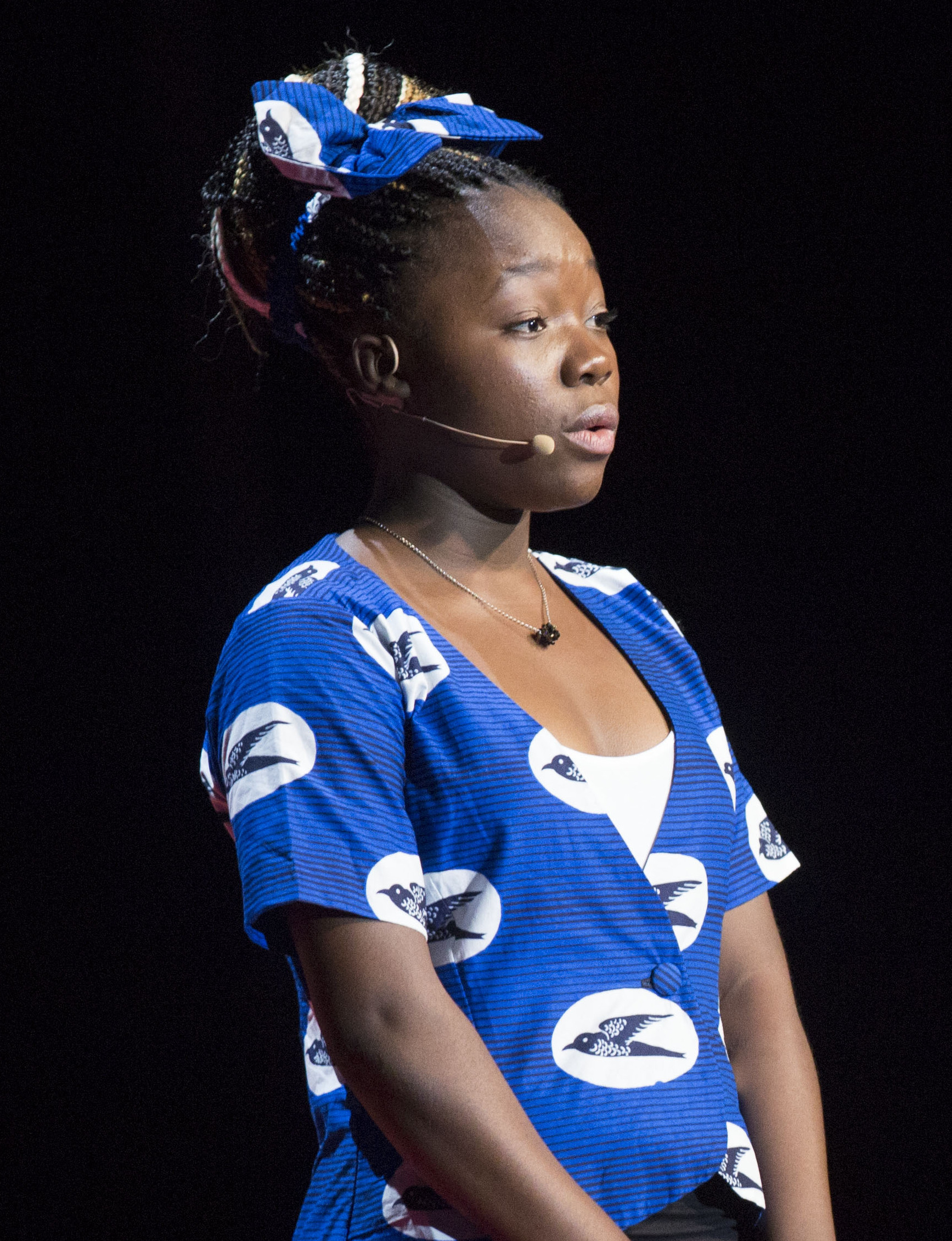 Rachel Mwanza at a TED conference in Paris